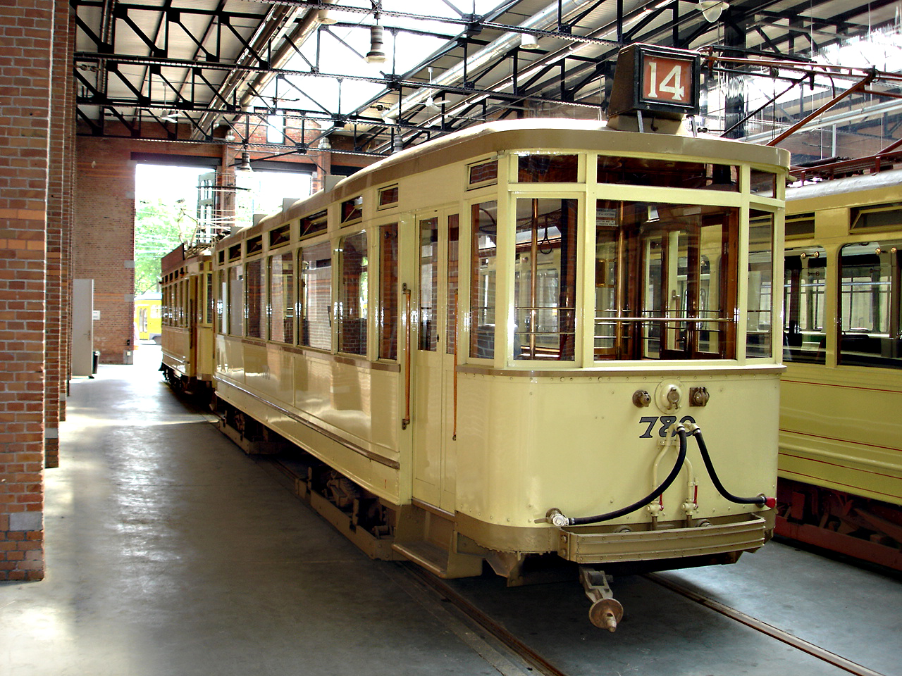 Trailer 780, HTM, HOVM, The Hague, The Netherlands.